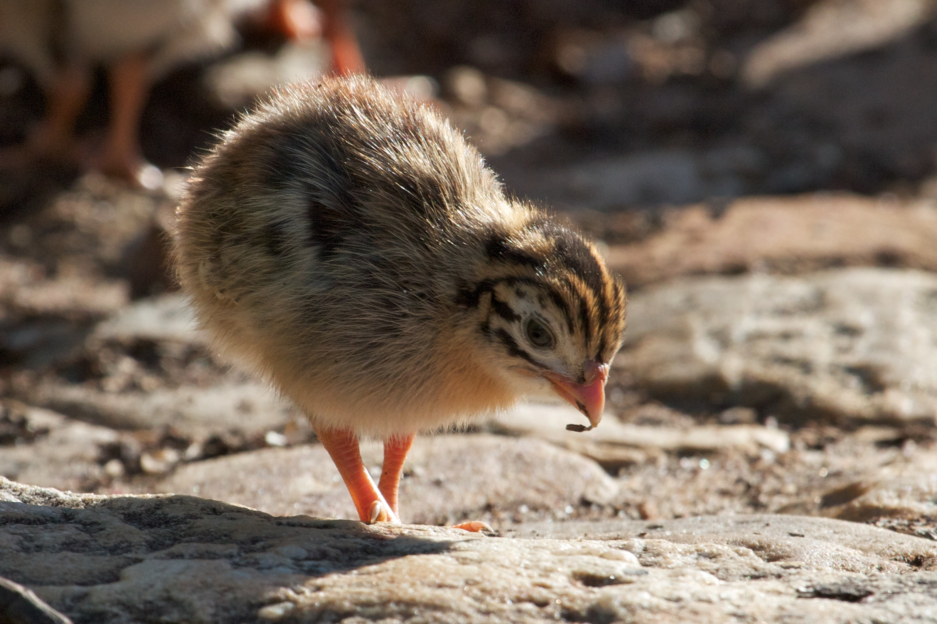 A Helmeted guineafowl keet in Cape Town, South Africa